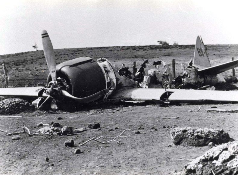 Nishikaichi's Zero BII-120